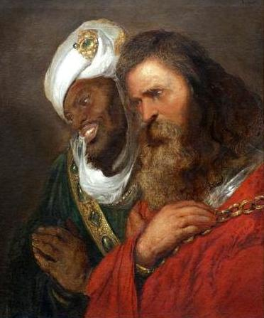 Above you may find one of the most extraordinary examples of early seventeenth century top class art. Painted by Jan Lievens it depicts one of the two most important men in the crusader era after a decisive moment in battle. You may find King Guy of Lusignan to the right and you may find King Saladin to the left. It portrays a sadness and glory. Sadness for the Dutch painter through the eyes of King Lusignan. Respect and glory in the depiction of King Saladin by his magnificent golden regalia and his Islamic royal green colour of cloathing. His counterpart is portrayed while enchained in golden rings while wearing the Western royal red cloathes. It is from a transnational artistical importance that this work is preserved to the best it can.